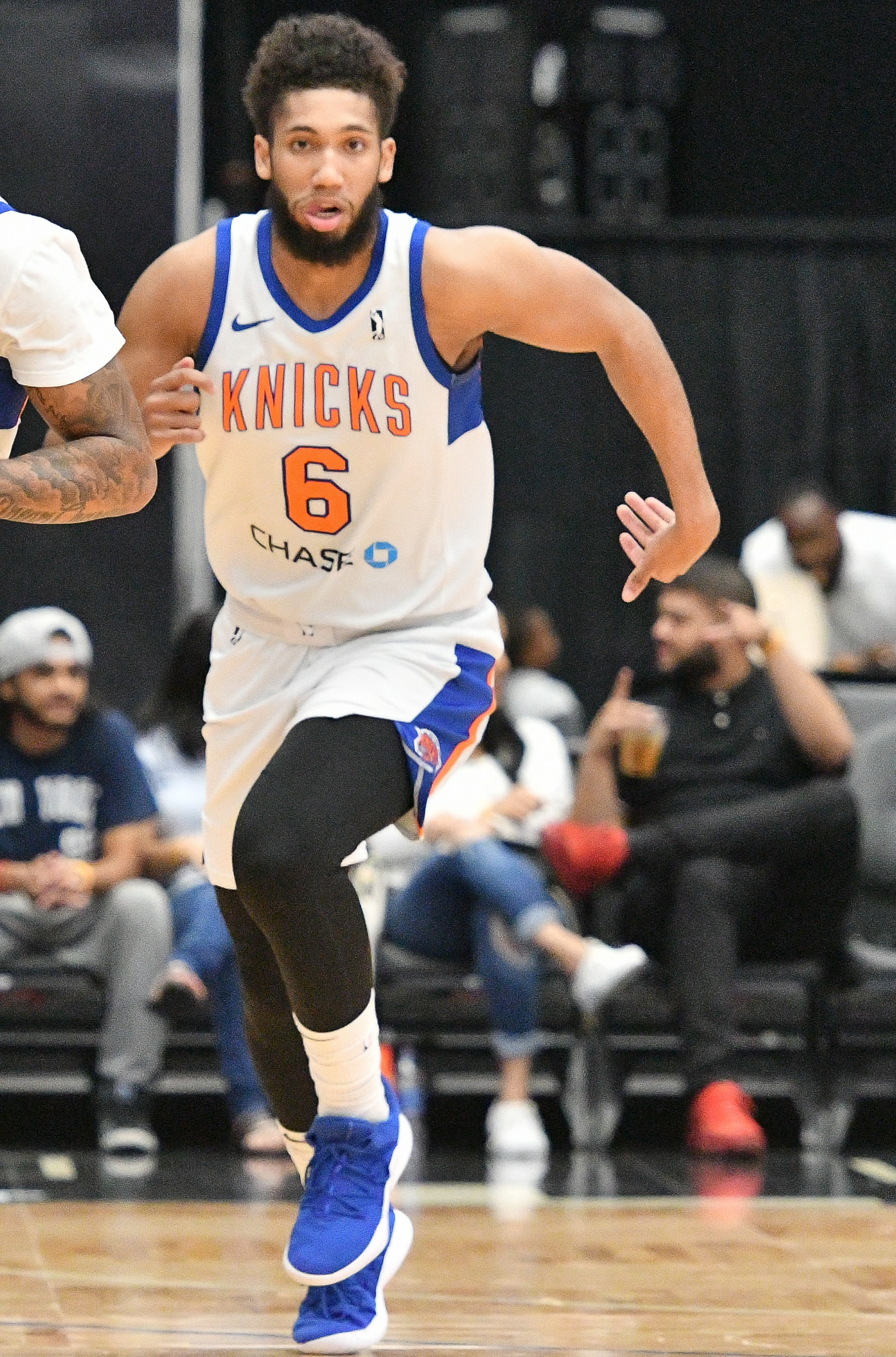 Lamar Peters, Tyler Hall. Lakeland Magic vs Westchester Knicks. RP Funding Center. Lakeland, Fla. Jan. 11, 2020. (Photo by Tom Hagerty.)